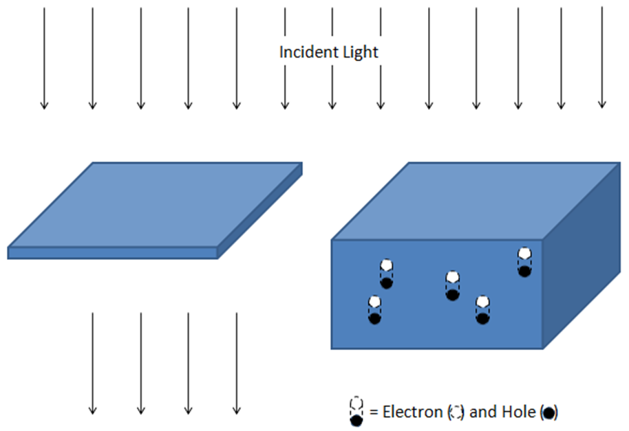 Philip Graf, Microsoft Power-point, Thin Vs. Thick Solar Cell with respect to light.